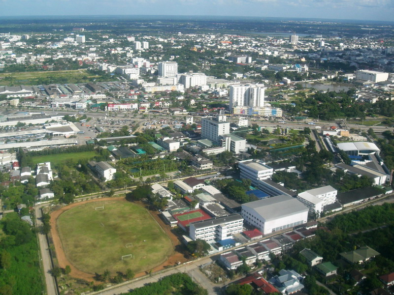 Nakhon Ratchasima Aerial Views.